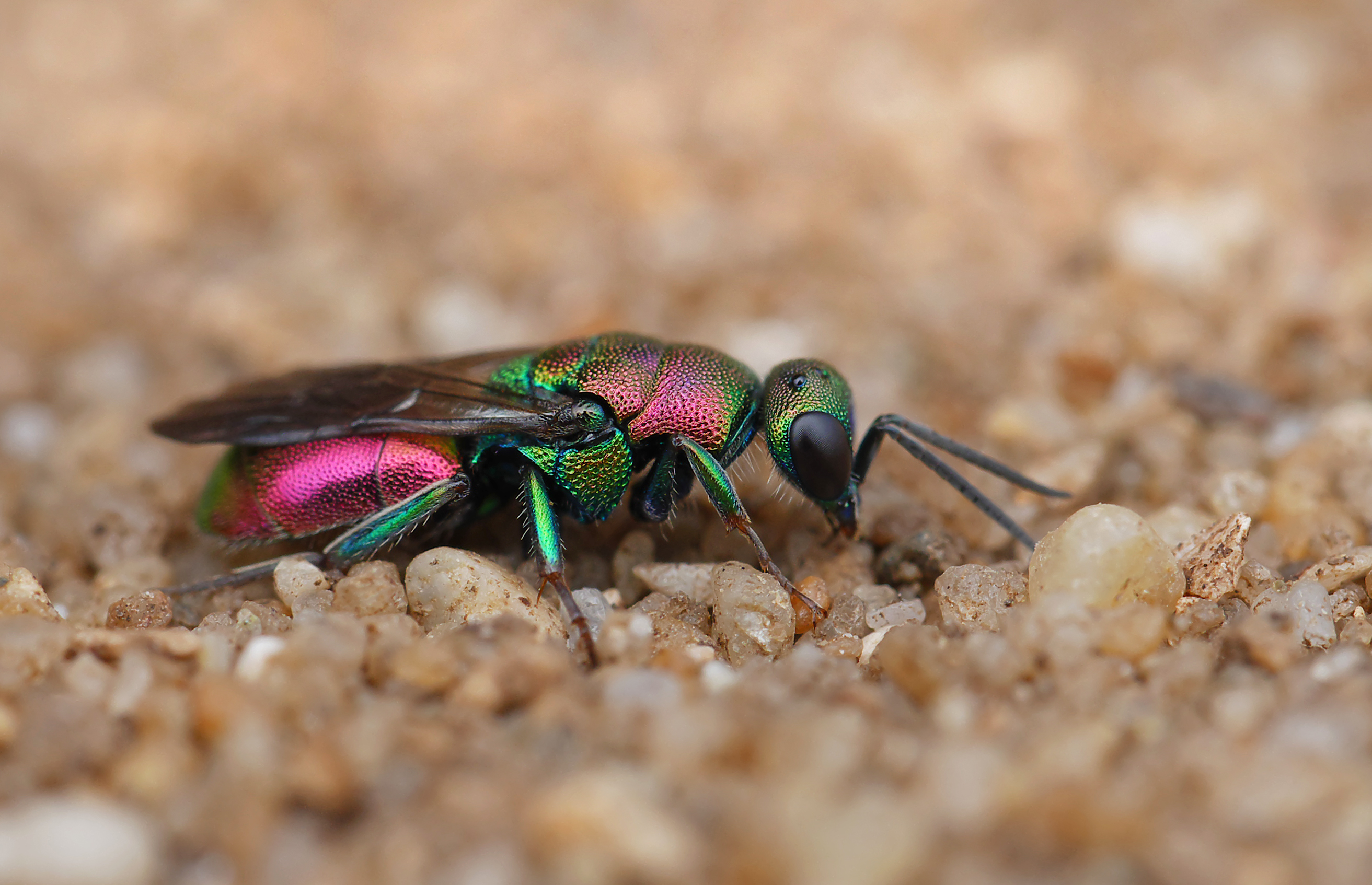 Panasonic GX7 + Leica DG Macro-Elmarit 45mm F2.8 ASPH OIS I found this tiny Cuckoo wasp in a sand dune not far from the beach. This species is a cleptoparasite and a parasitoid of larvae of the European beewolf (Philanthus triangulum), an aculeate wasp that itself is a predator of the European honeybee.